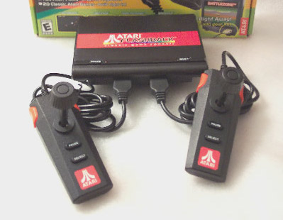 Atari Flashback, cropped from File:Atari Flashback.jpg